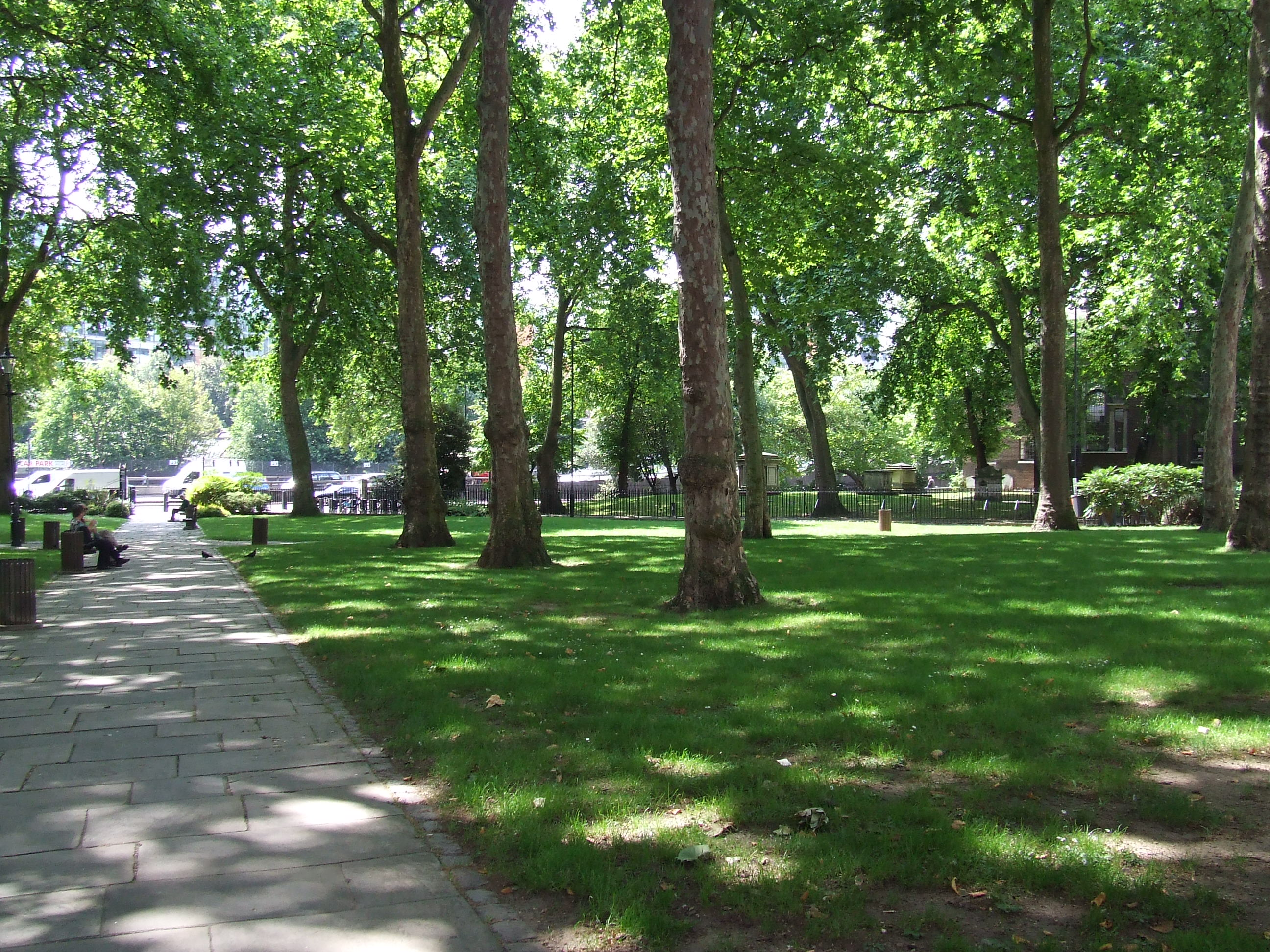 Paddington Green conservation area in London W2, showing mature London Plane trees and with view to Westway